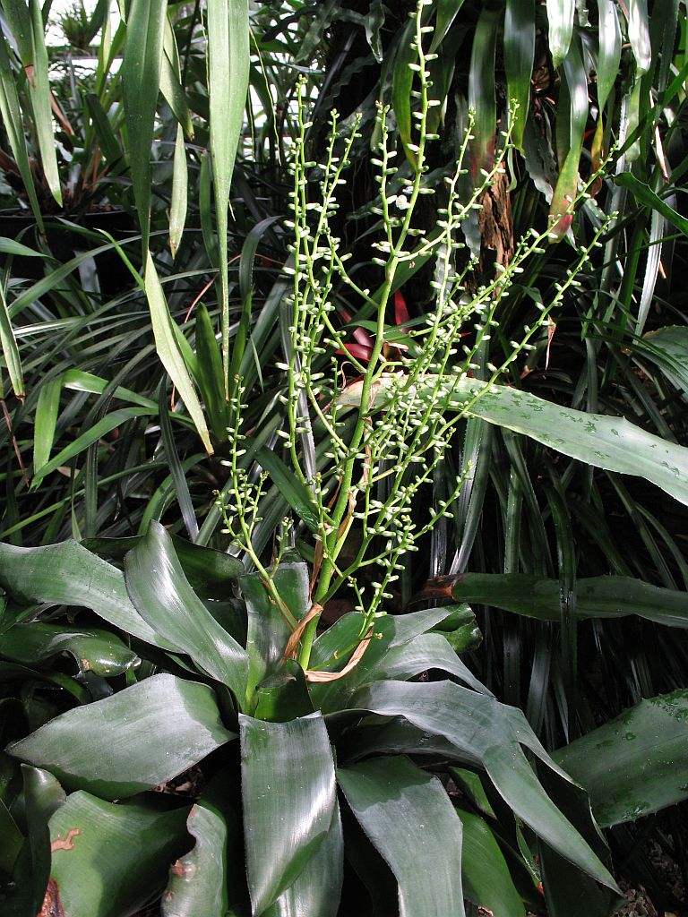 Lymania alvimii in cultivation at the Botanical Garden of Heidelberg, Germany.